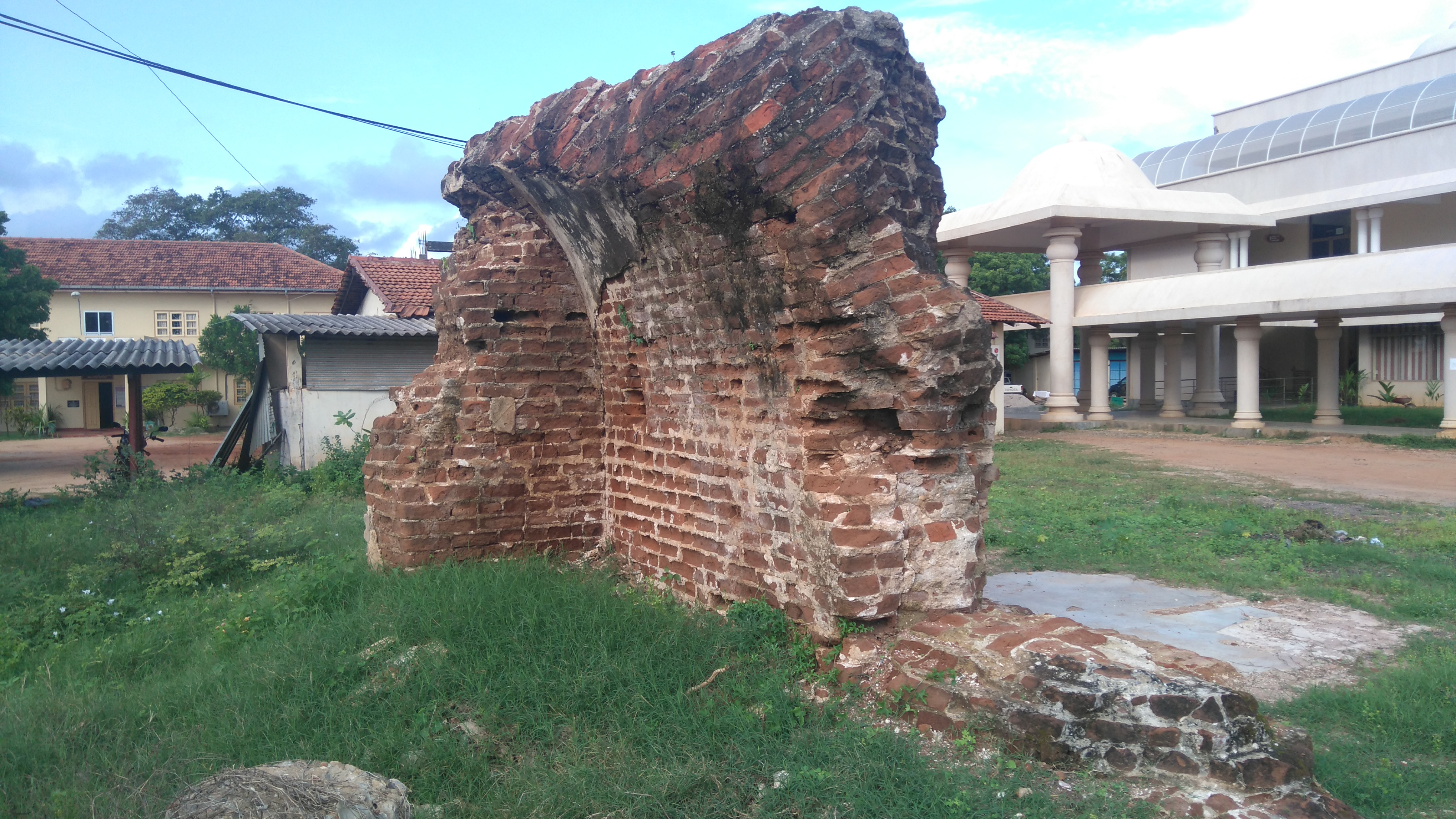 Mullaitivu Fort in srilanka